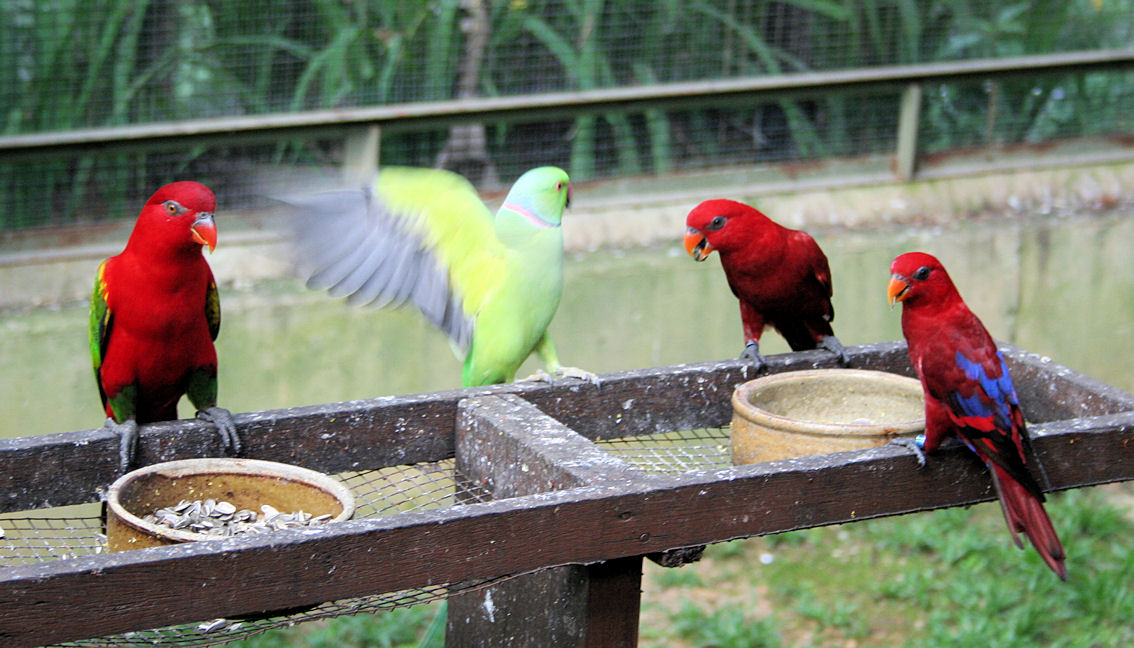 From left to right: Chattering Lory (Lorius garrulus); Rose-ringed Parakeet (Psittacula krameri); (two) Red Lory (Eos bornea). Parrots at Kuala Lumpur Bird Park.